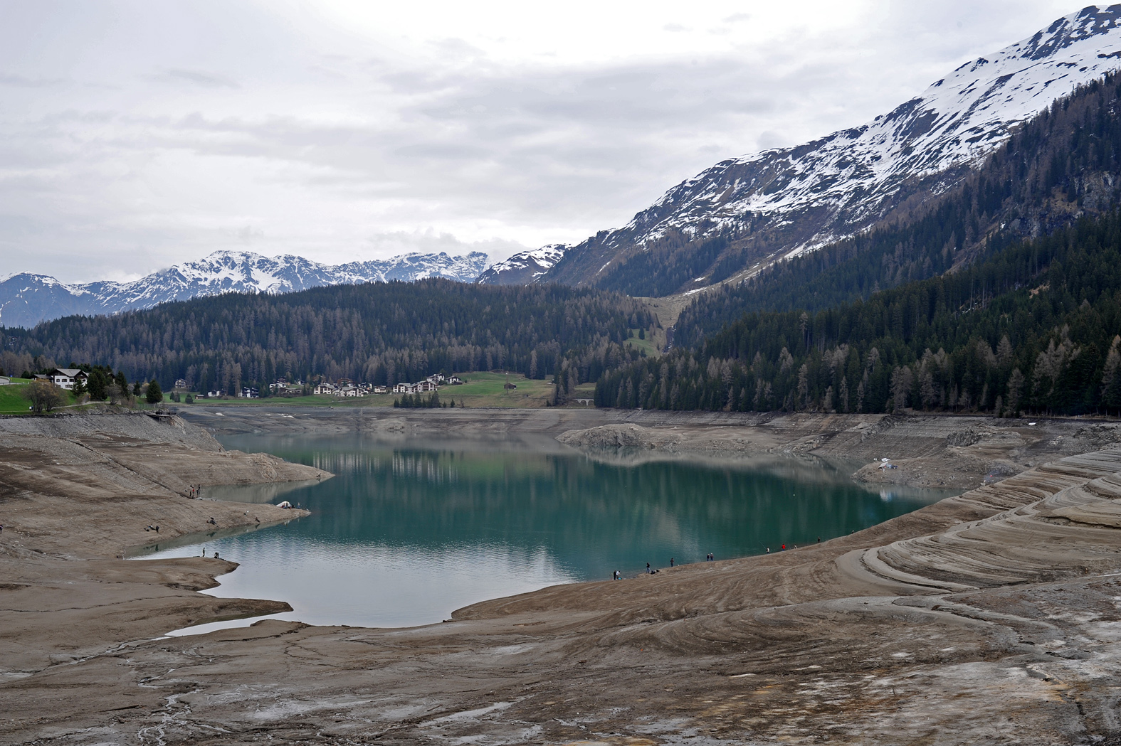 Lake Davos in Davos at minimum level in spring; Graubünden, Switzerland. The water of the lake Davos is fed for energy production through an underground tunnel to the power plant in Klosters.